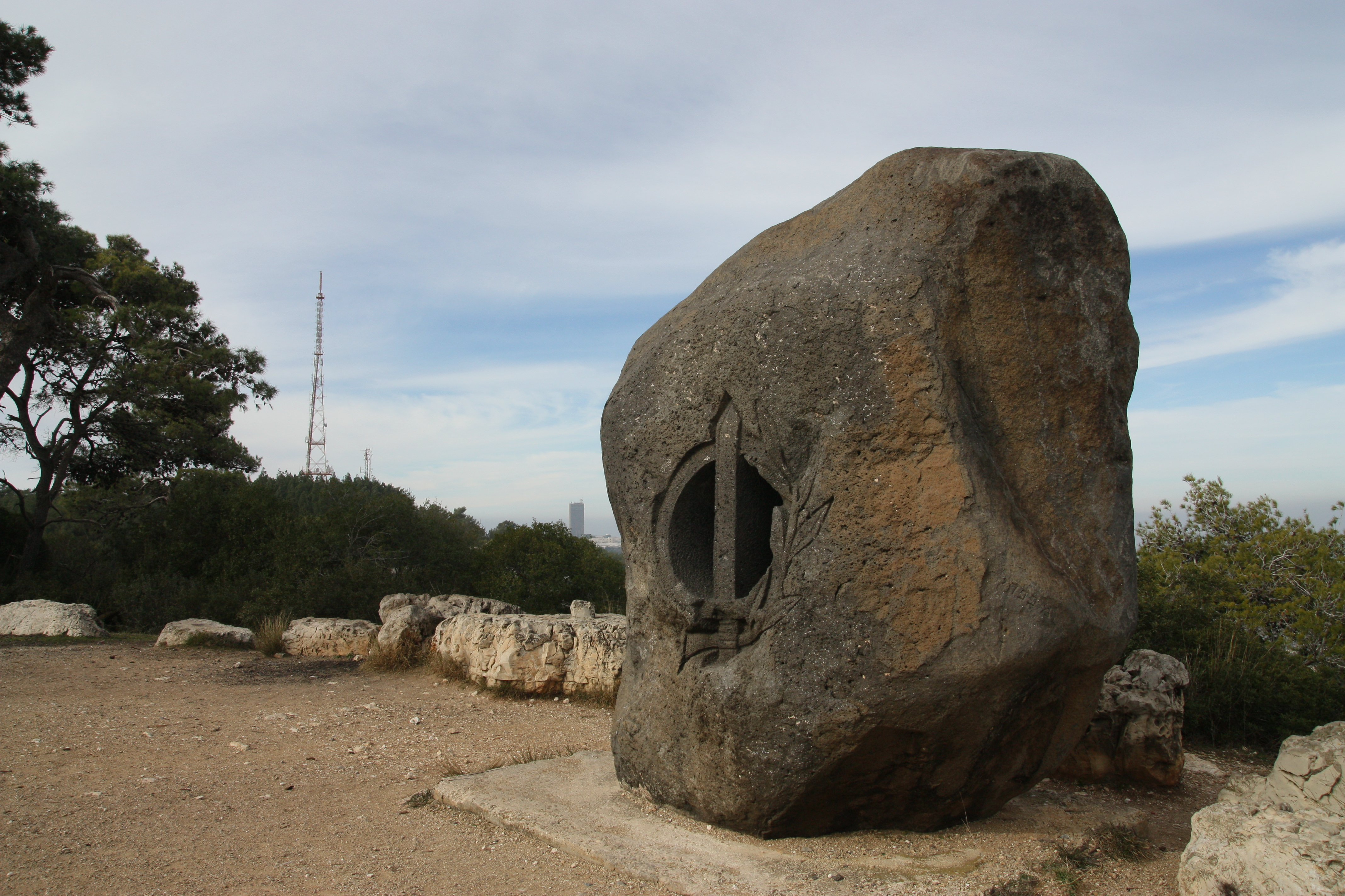 Mount Carmel